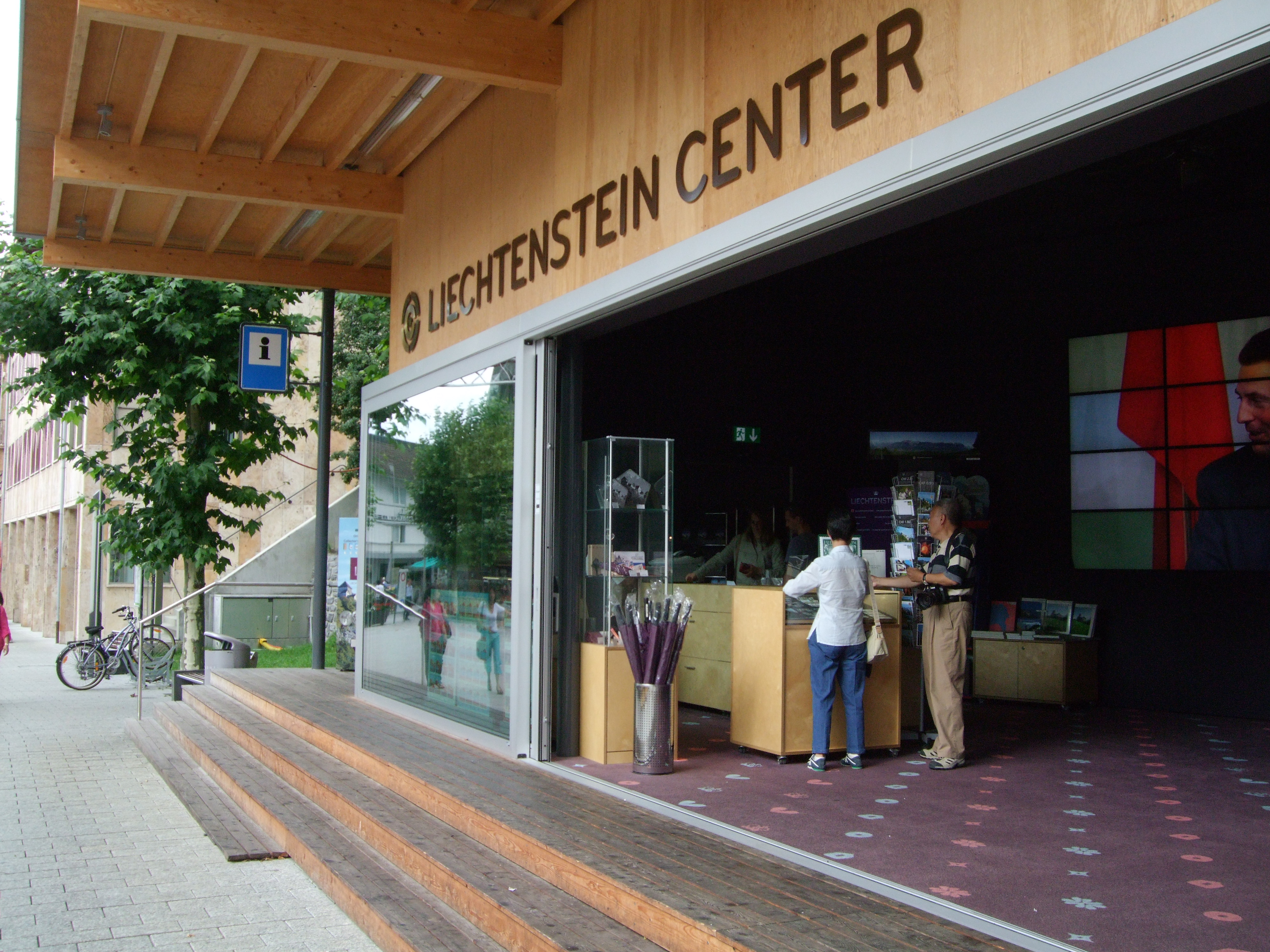 Liechtenstein center